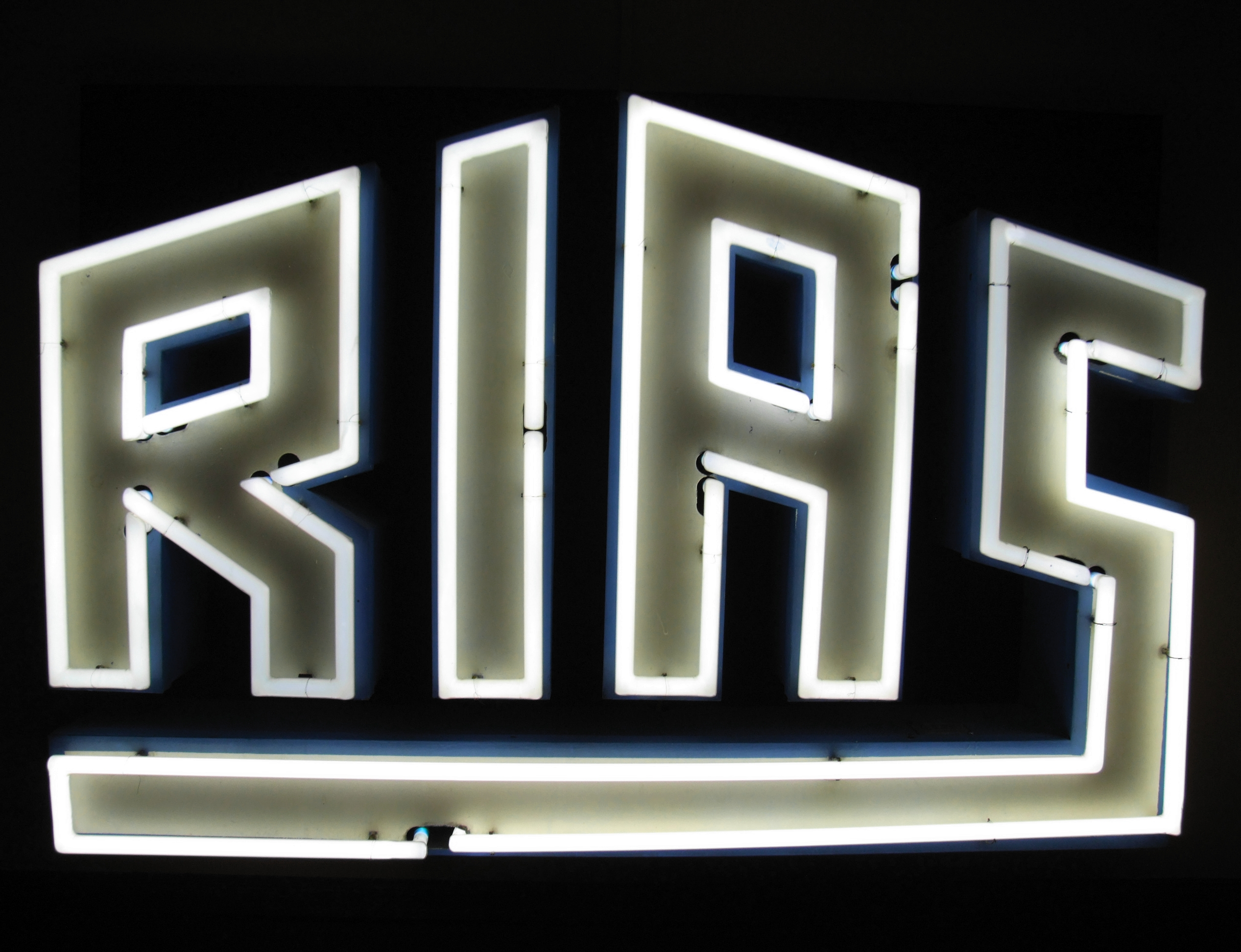 RIAS neon sign in Allied Museum, Berlin